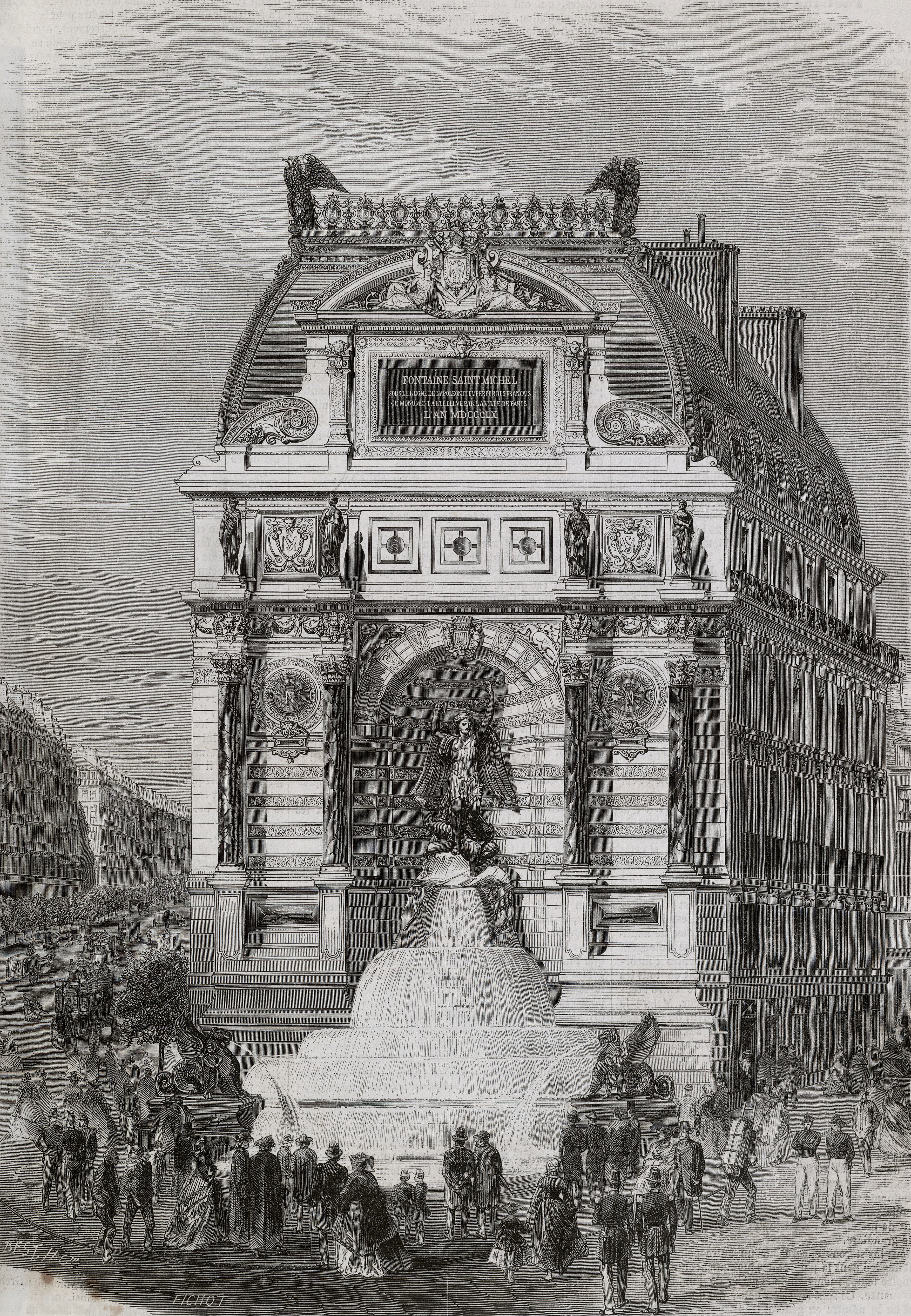 The Saint-Michel fountain was inaugurated on August 15th, 1860. It features a sculpture of Saint-Michel, known as the "protector" of Paris, and continues to be a major landmark of the Latin Quarter.